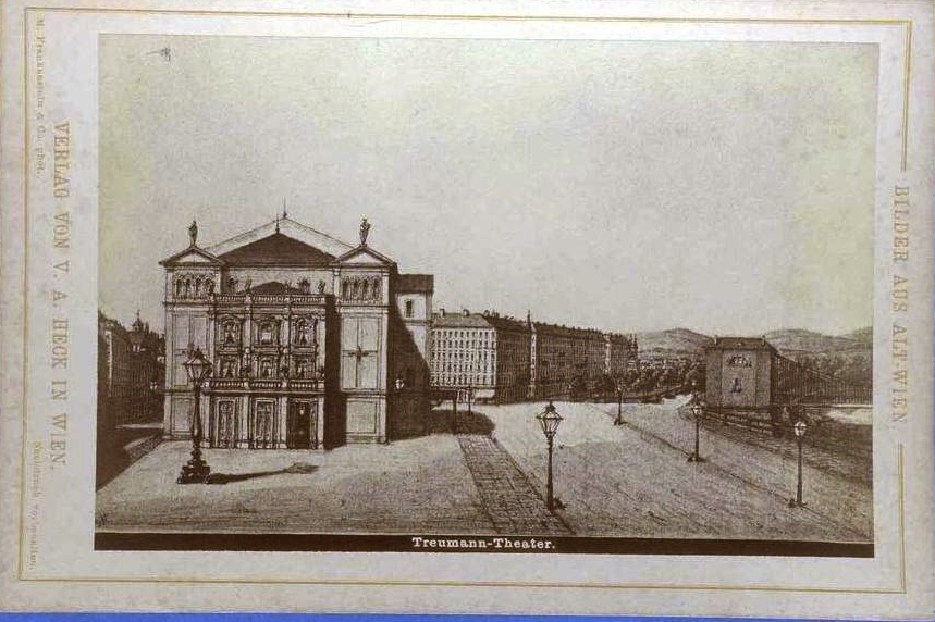 Theater am Franz-Josefs-Kai in Vienna, 1860–1863